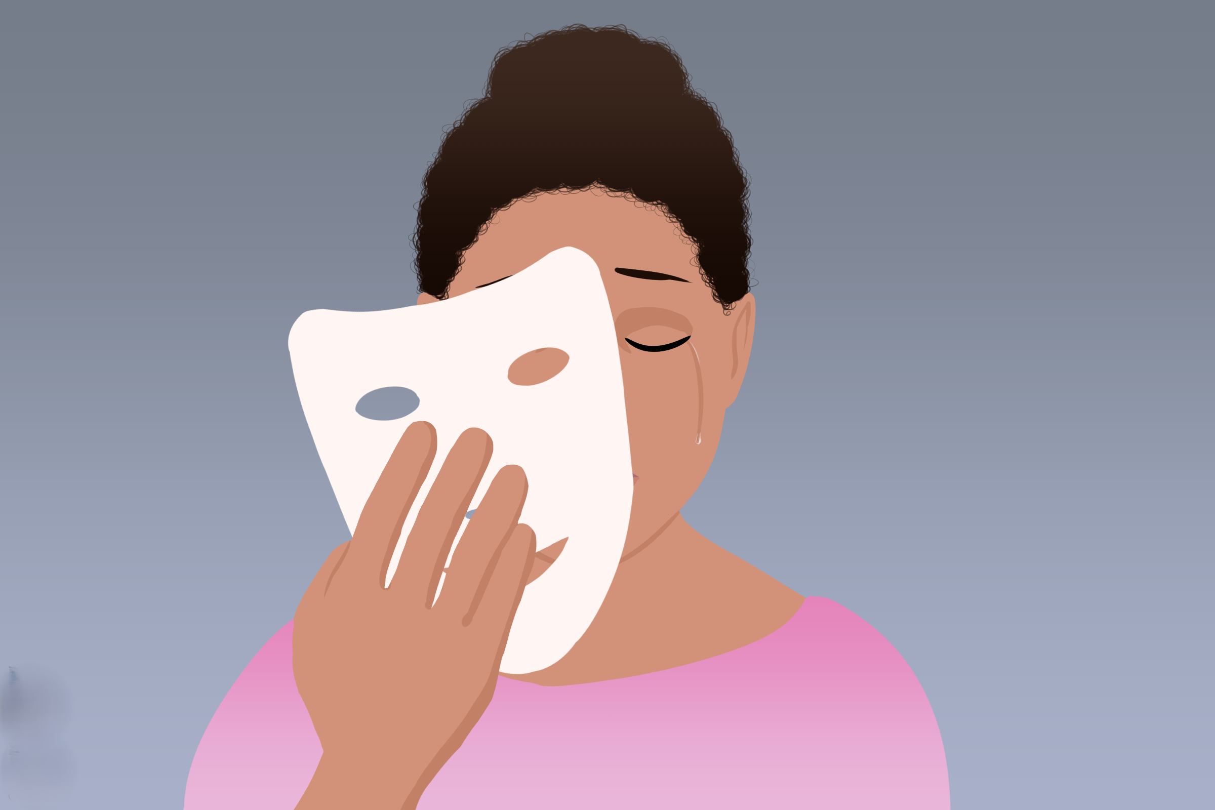 Autistic "masking" or "camouflaging" refers to adopting superficial non-autistic behavior. This behavior may be self-imposed or taught through therapies such as applied behavior analysis. Masking behavior in autism may make diagnosis more difficult, and it is correlated with an increased risk of suicidality. Unfortunately, for autistic people, "unmasking" or "being yourself" may result in social rejection.